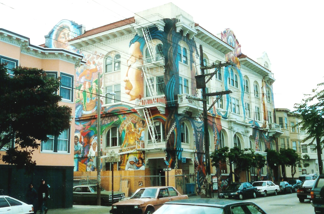 San Francisco Women's Building, 3543 18th Street, Mission District, San Francisco. 1979 opened women's cultural center. Famous mural.